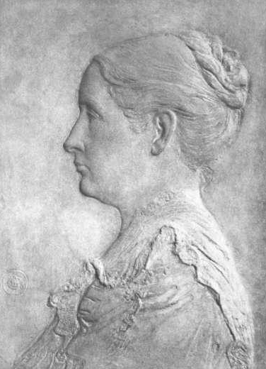 The Philanthropic Work of Josephine Shaw Lowell By William Rhinelander Stewart by A. St Gaudens (1911)